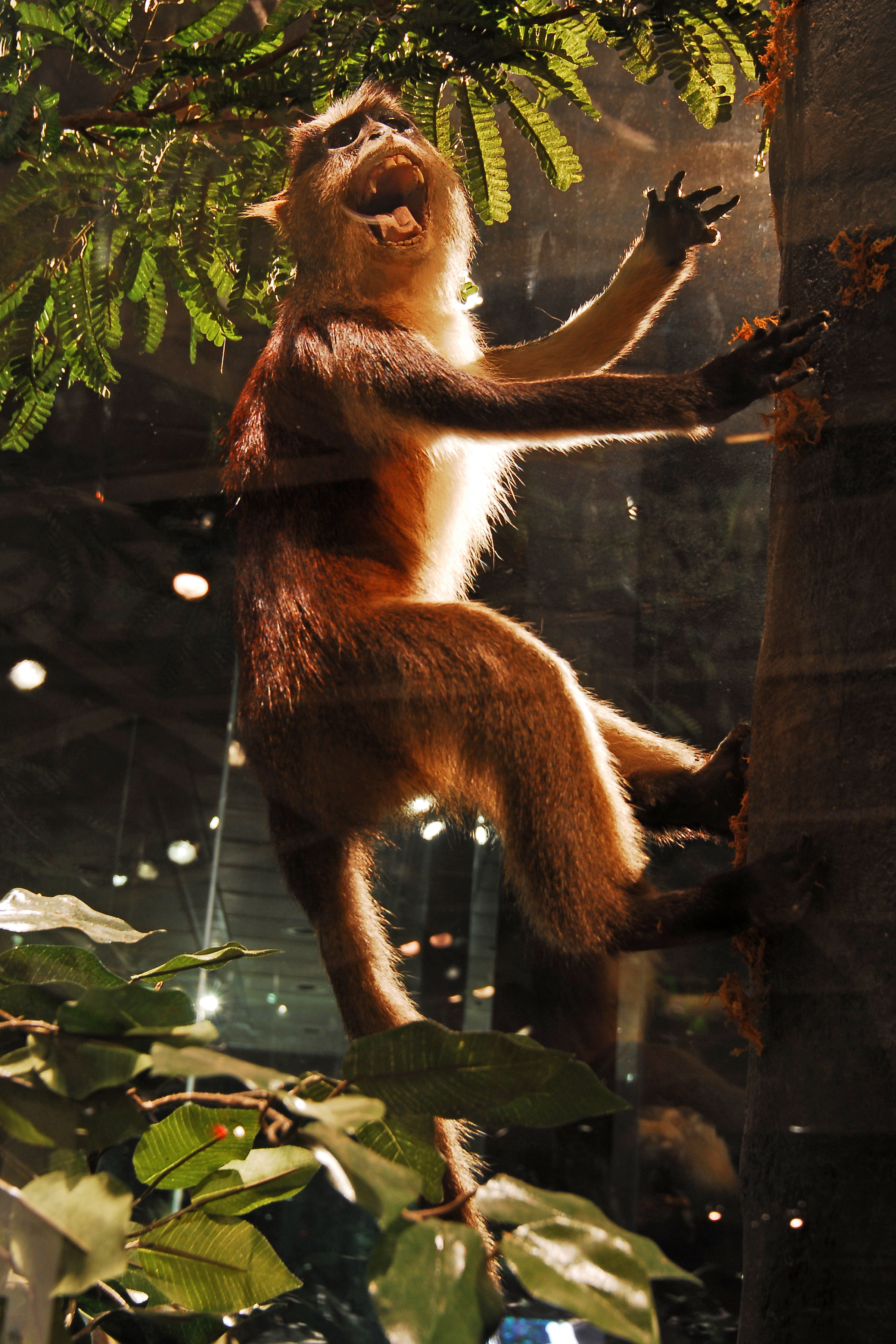 Crowned Guenon Cercopithecus pogonias Wikipedia Loves Art at the Houston Museum of Natural Science This photo of item # [1] at the Houston Museum of Natural Science was contributed under the team name "Houston_Museum_Of_Natural_Science" as part of the Wikipedia Loves Art project in February 2009. Houston Museum of Natural Science The original photograph on Flickr was taken by gwenturnerjuarez—please add a comment to the original Flickr page whenever a use has been made on Wikipedia or another project. Project galleries on Flickr: this institution, this team